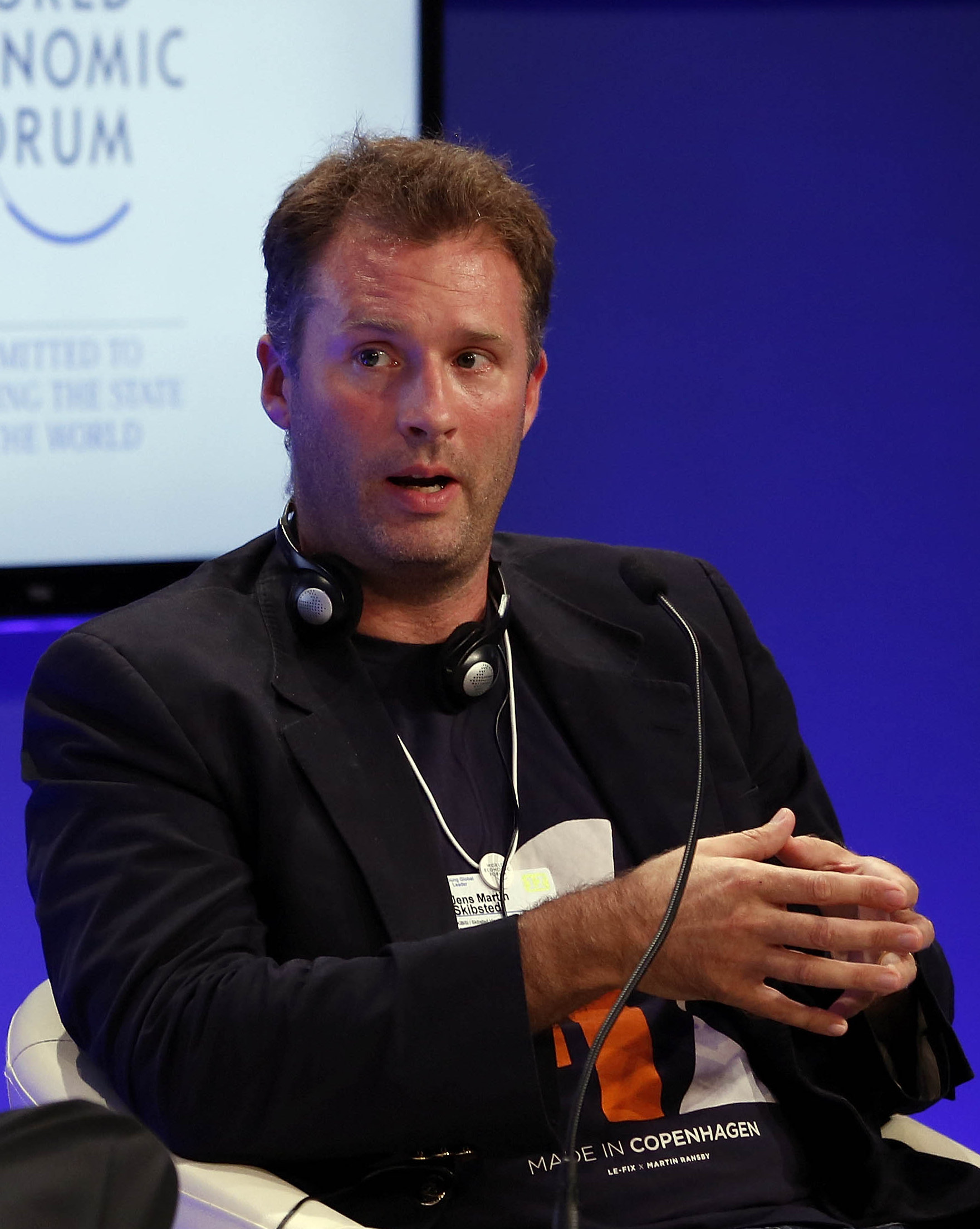 Jens Martin Skibsted, Founding Partner, KiBiSi/Skibsted Ideation, Denmark; Young Global Leader; Global Agenda Council on Design Innovation at the Annual Meeting of the New Champions in Tianjin, China 2012